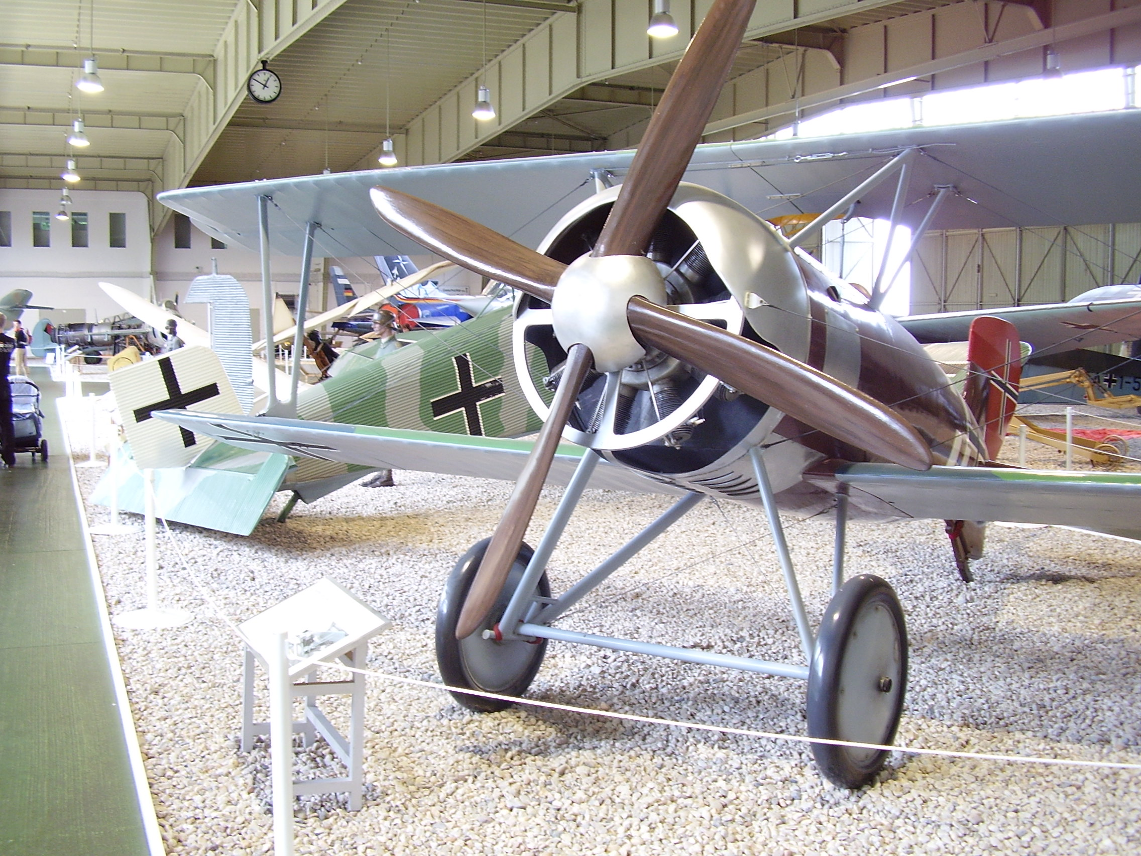 Luftwaffenmuseum der Bundeswehr; Airforce Museum of the Bundeswehr; Berlin-Gatow. SSW fighter, behind it a Junkers D.I.